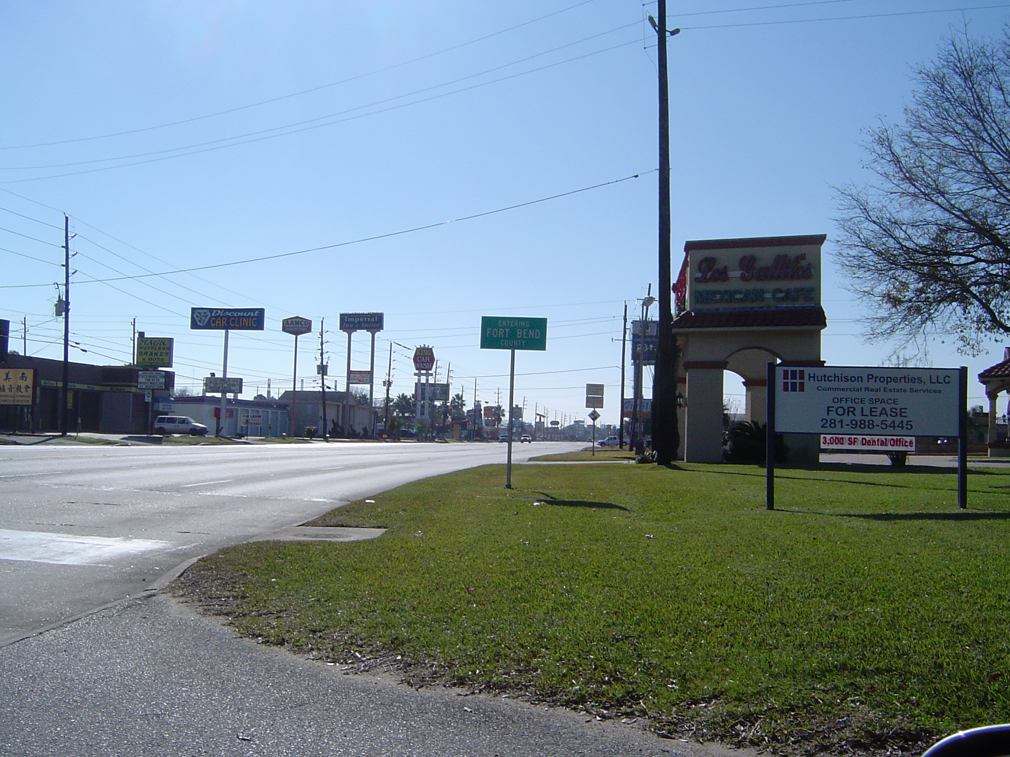 Sign indicating entry into Fort Bend County along FM 1092